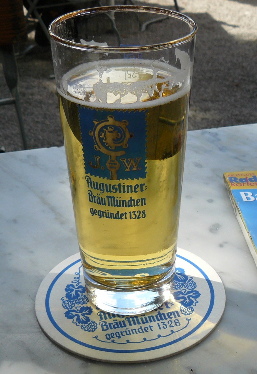 Augustiner beer in Munich.